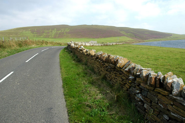 Main road to Evie, near Swannay Farm. Swannay Loch in distance